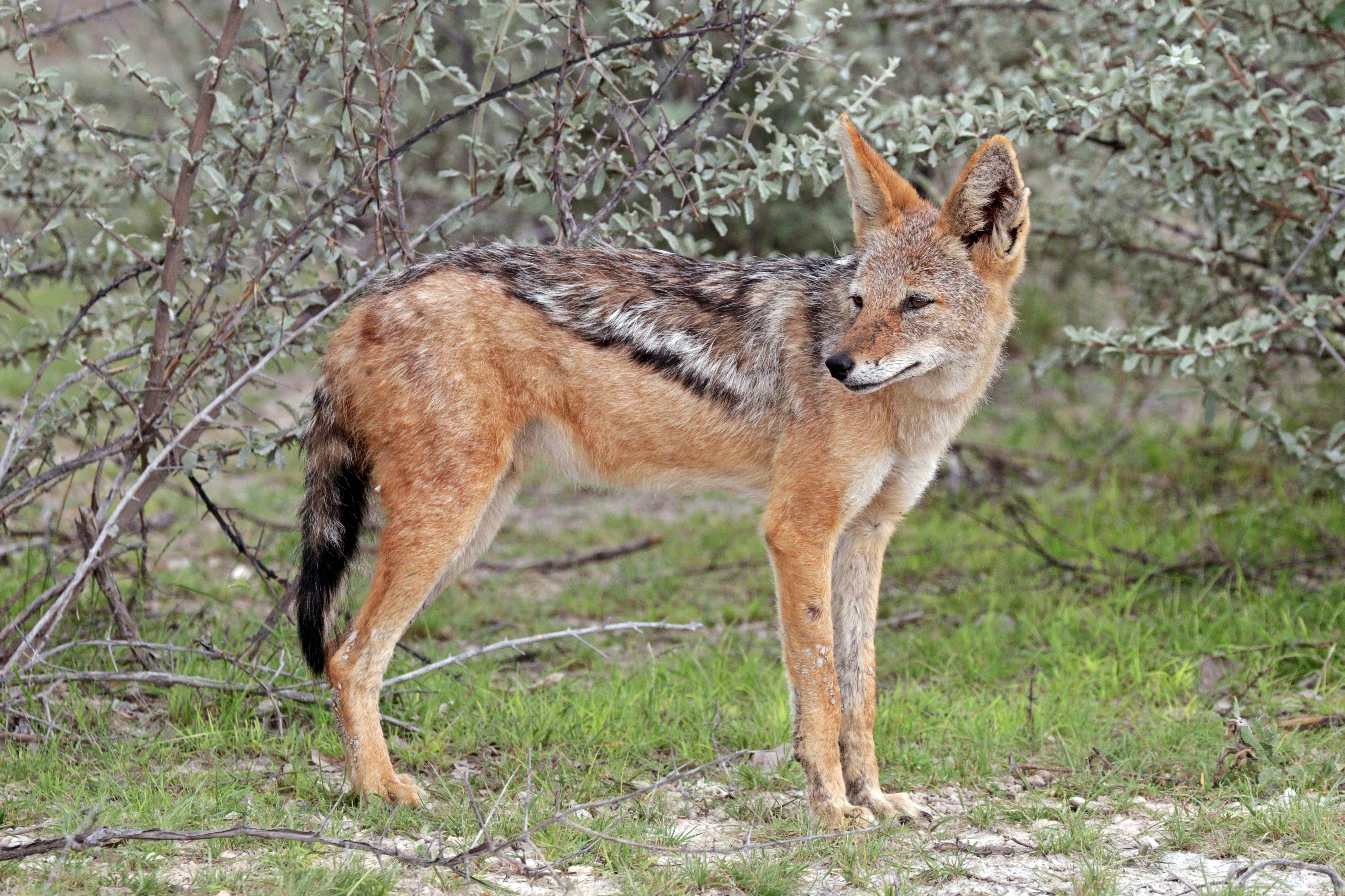 Black-backed jackal (Canis mesomelas mesomelas), Etosha National Park, Namibia